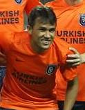 İstanbul Büyükşehir Belediyespor 18.08.2016